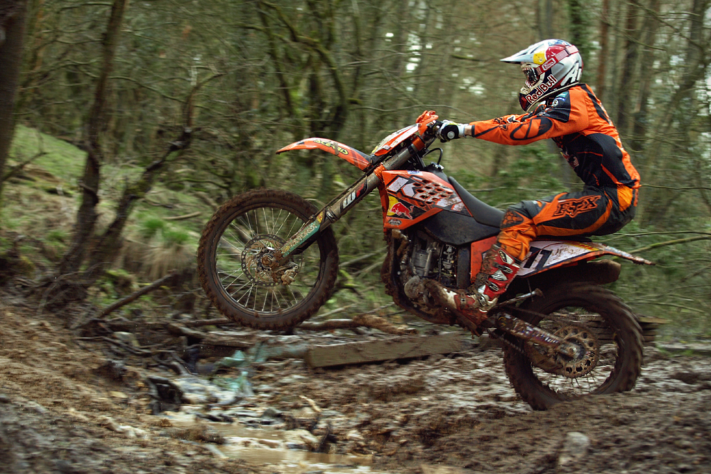 Taddy Blazusiak at ACU British Enduro Championship (2010)